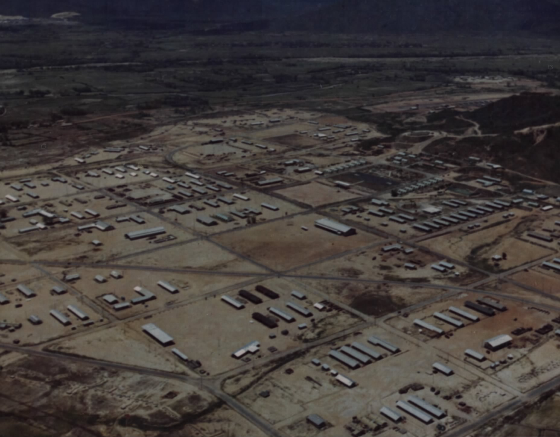 The Tiger Infantry Division, Republic of Korea, Vietnam Forces is located 20 km northeast of Qui Nhon and approximately 450 kms north northeast of Saigon. The Tiger Division has a Tactical Area of Responsibility of approximately 1400 square miles including Binh Dinh and part of Phu Yen Provinces. The Mission of the Division is to protect major highways, military installations and facilities within its TAOR and to assist the Republic of Vietnam in its pacification program by destroying the Viet Cong and North Vietnamese Army (VC & NVA) in the Area.